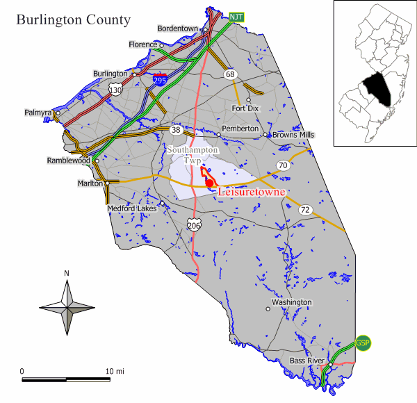 Source: Jim Irwin Original work by Jim Irwin, December 2005.